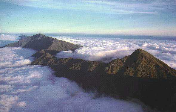 The Venezuelan Coastal Range peaks - of the northeastern Andes.